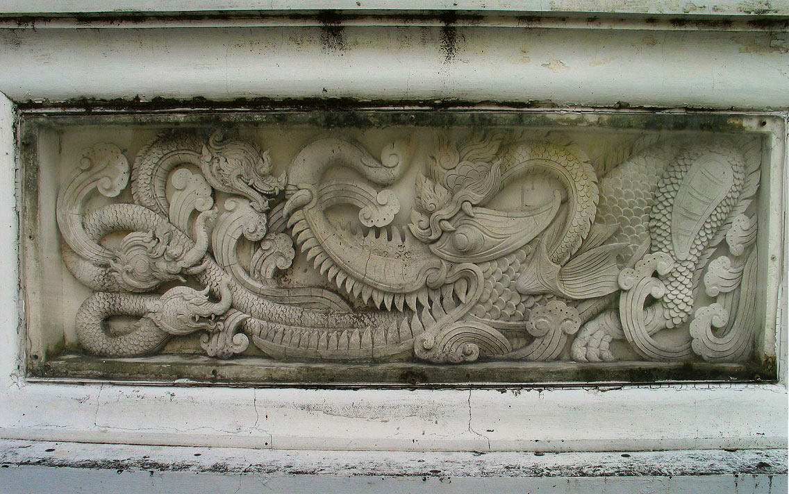 Relief depicting a Makara with Nagas, Wat Suthat, Bangkok, Thailand.